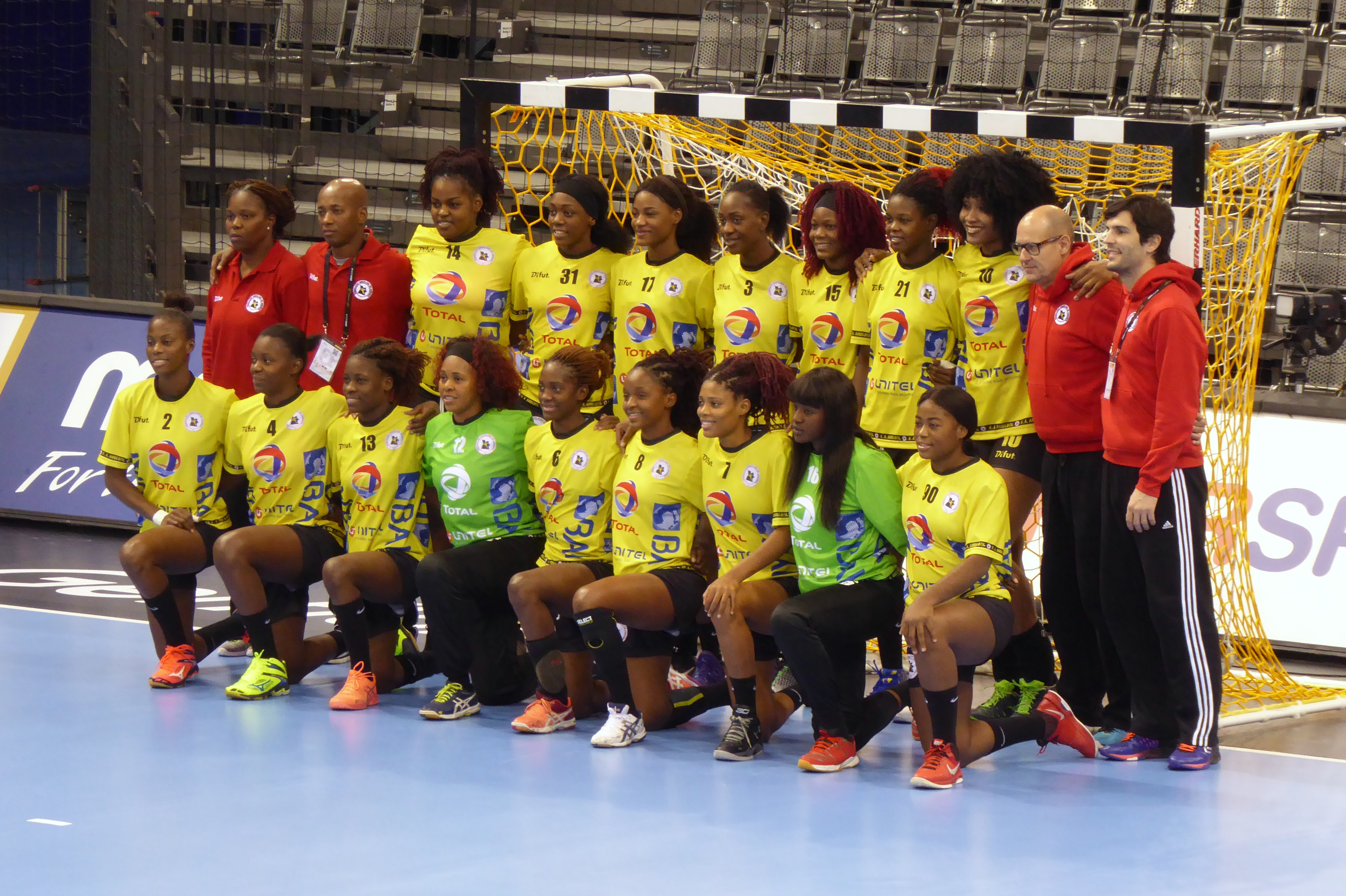 Team photo of Angola before their last group game at the 2017 World Women's Handball Championship against Paraguay (32-28)